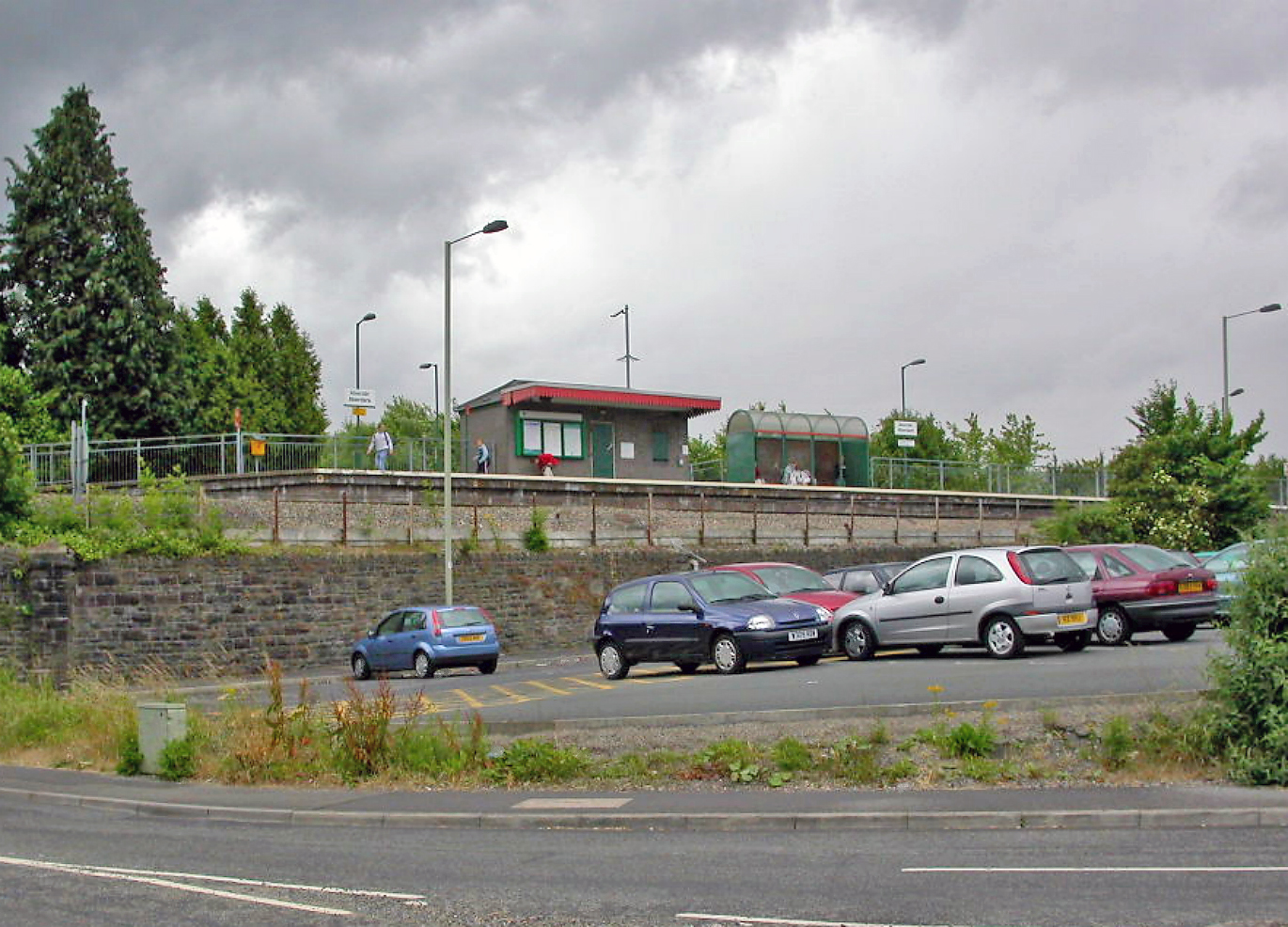 Aberdare station, as reopened. View westward of the station opened on 3/10/88 for a restored service from Cardiff via Pontypridd and Abercynon over the former Taff Vale line to Aberdare Low Level. It is roughly on the site of the former High Level station on the ex-GWR Vale of Neath line (Pontypool Road - Neath) which closed in 6/64 but remained for freight to Hirwaun and Tower Colliery. (See my Aberdare scenes from the 'old days').